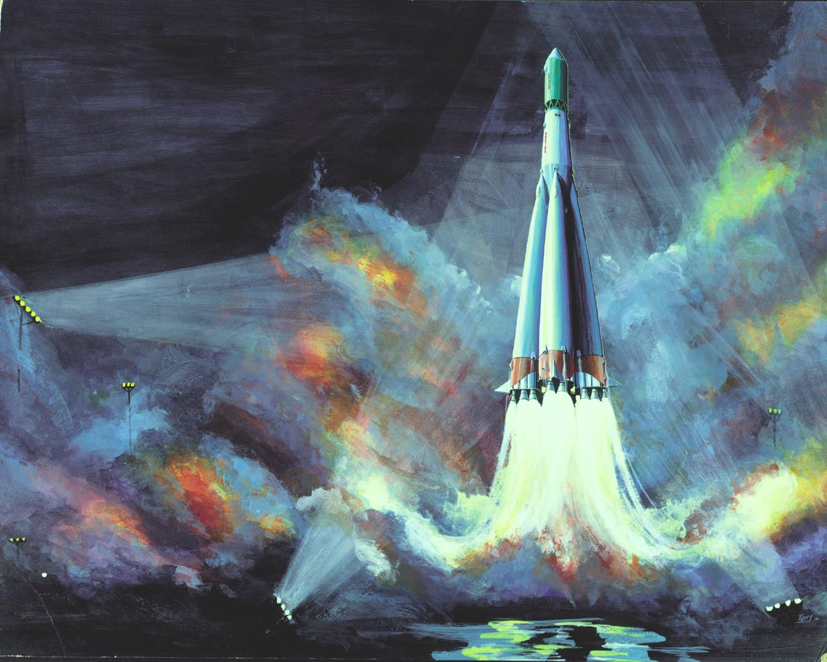 Vostok Launch by Richard Terry, 1978: Manned space flight began on April 12, 1961, with Yuri Gargarin's single-orbit mission. The liquid-fueled, two-stage Vostok rocket that lifted Gagarin into space was used to launched a variety of military and civilian spacecraft from 1959 to the 1980s. During the 1980s, several years after this illustration was made, the Soviets began using Vostok rockets to place commercial satellites in orbit for other countries. Vostok means "east" in Russian.